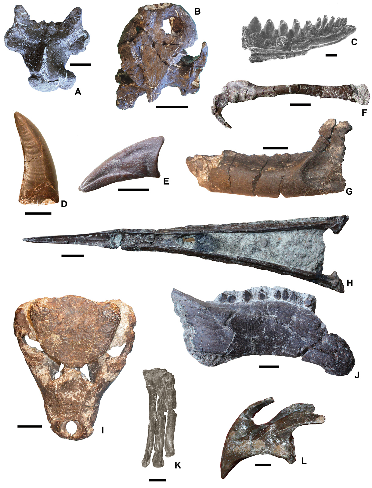 Representative taxa from the Santonian Iharkút fauna from the Csehbánya Formation, Bakony Mountains, western Hungary. A Pannoniasaurus inexpectatus (Squamata, Mosasauroidea), dorsal vertebra (MTM uncatalogued) in dorsal view (photo by Réka Kalmár) B Foxemys trabanti (Pleurodira, Bothremydidae), skull (MTM V 2010.215.1.) in dorsal view (photo by Márton Rabi). C Bicuspidon aff. hatzegiensis (Squamata, Borioteiioidea), left dentary (MTM 2006.112.1.) in medial view (photo by László Makádi) D Basal tetanuran (Theropoda, Tetanurae), tooth (MTM V.01.54) in ?lingual view E Indeterminate abelisaurid (Theropoda, Abelisauridae), pedal ungual phalanx (MTM V 2008.43.1.) in lateral view F Pneumatoraptor fodori (Theropoda, Paraves), left scapulocoracoid (holotype, MTM V 2008.38.1.) in lateral view G Mochlodon vorosi (Ornithopoda, Rhabdodontidae), left dentary (holotype, MTM V 2010.105.1) in lateral view H Bakonydraco galaczi (Pterosauria, Azhdarchidae), mandible (holotype, MTM 2007.110.1) in dorsal view I Iharkutosuchus makadii (Eusuchia, Hylaeochampsidae), skull (holotype, MTM 2006.52.1) in dorsal view J Hungarosaurus tormai (Ankylosauria, Nodosauridae), right dentary (MTM 2007.25.2) in lateral view K Bauxitornis mindszentyae (Aves, Enantiornithes), left tarsometatarsus (holotype, MTM V 2009.38.1) in anterior view L Ajkaceratops kozmai (Ceratopsia), fused rostral and premaxillae (holotype, MTM V 2009.192.1) in lateral view. Scale bars: 2 cm in A, V, G, H, I, J; 1 cm in D, E, F, K, L; 1 mm in C.